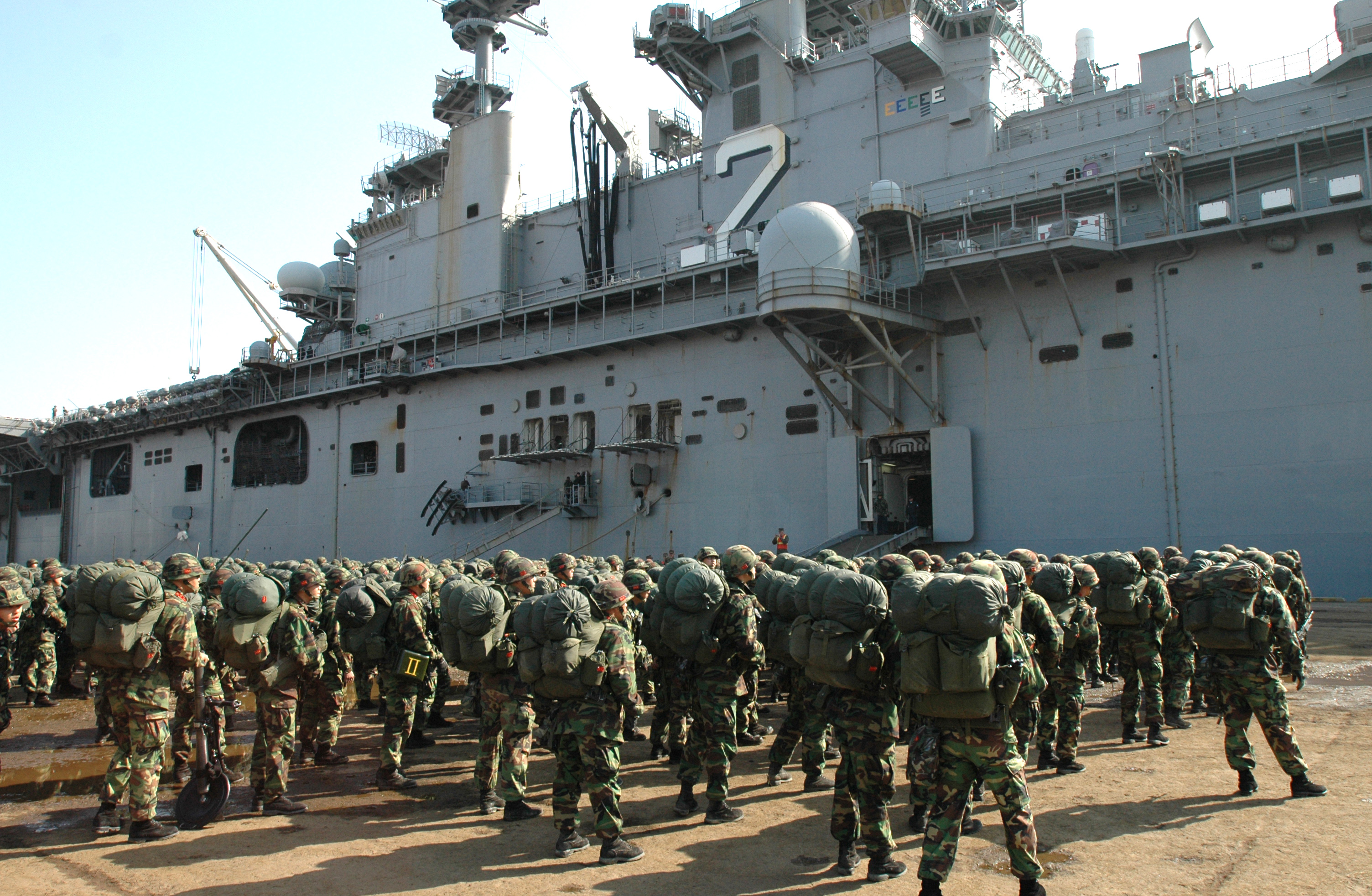 070325-N-4207M-002 POHANG, Republic of Korea (March 25, 2007) - Republic of Korea marines stand in ranks as they await further orders to walk up the ramp to board amphibious assault ship USS Essex (LHD 2) during exercise Foal Eagle 2007. Foal Eagle is an annually scheduled exercise involving forces from the U.S. and the Republic of Korea (ROK) to improve combat readiness through interoperability. U.S. Navy photo by Mass Communication Specialist 3rd Class Jhoan Montolio (RELEASED)